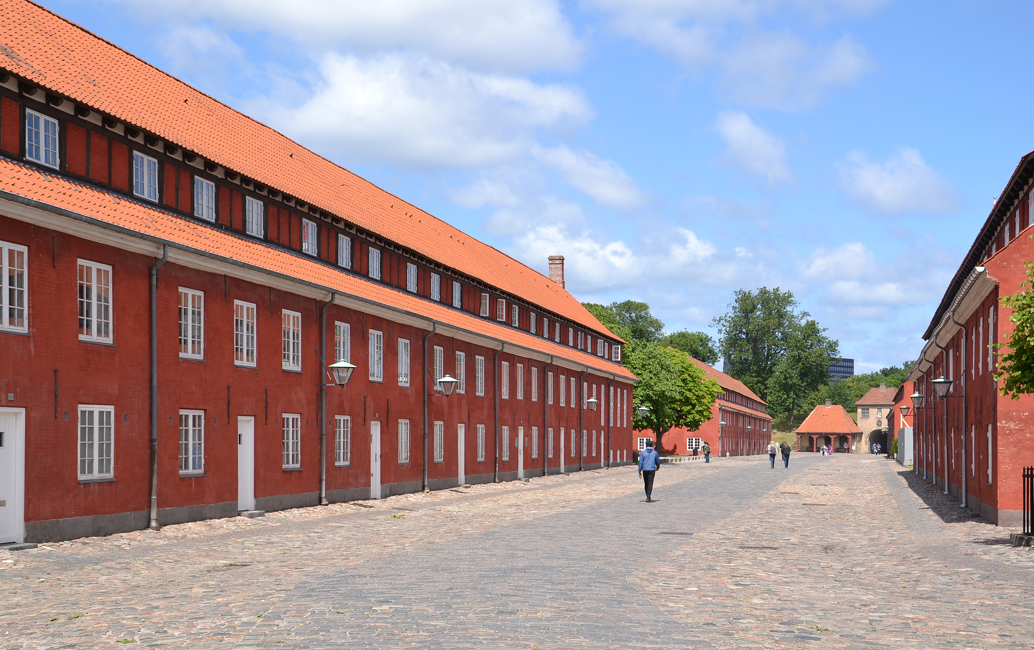 Kastellet, Copenhagen, Denmark